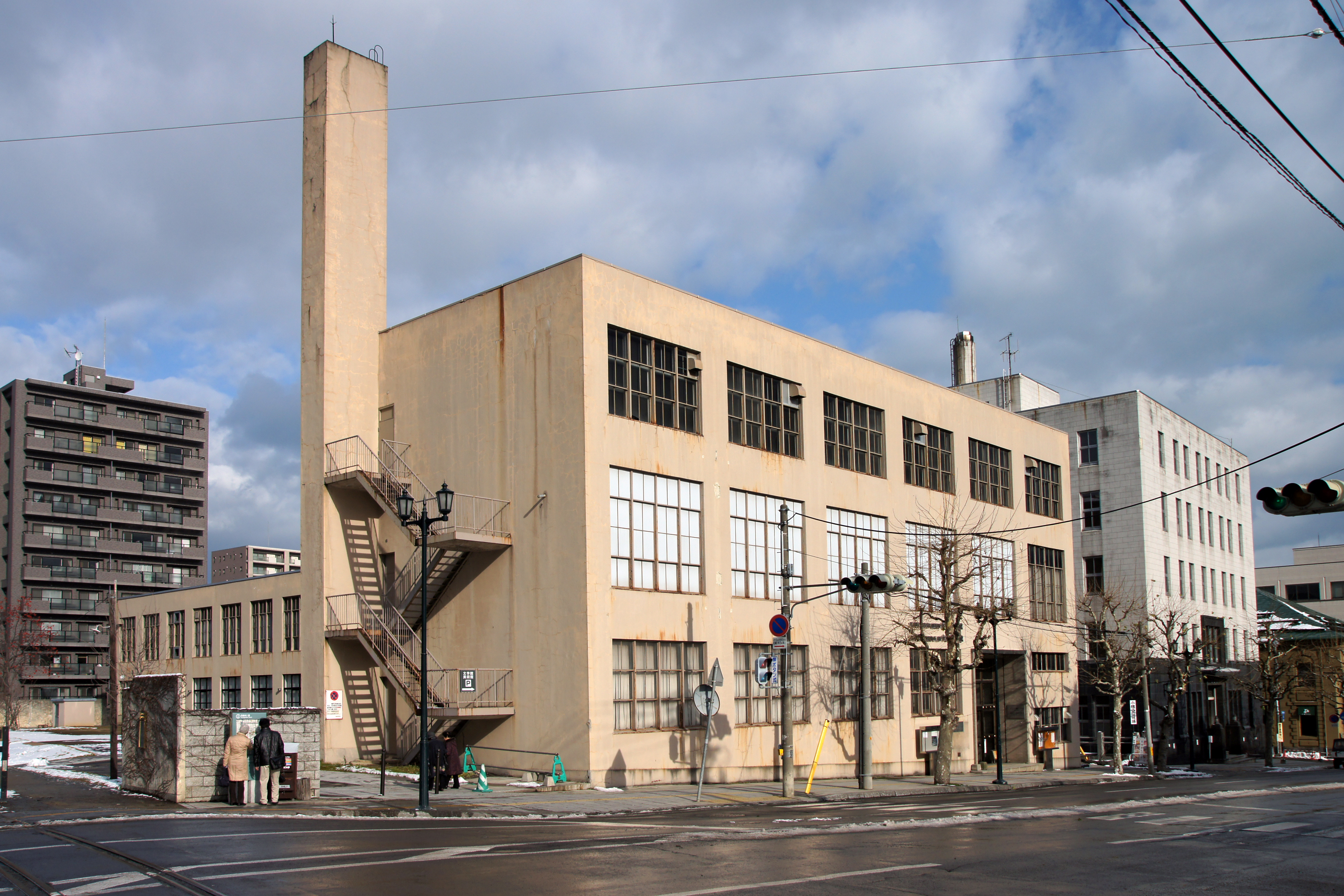 Otaru City Museum Branch in Otaru, Hokkaido prefecture, Japan